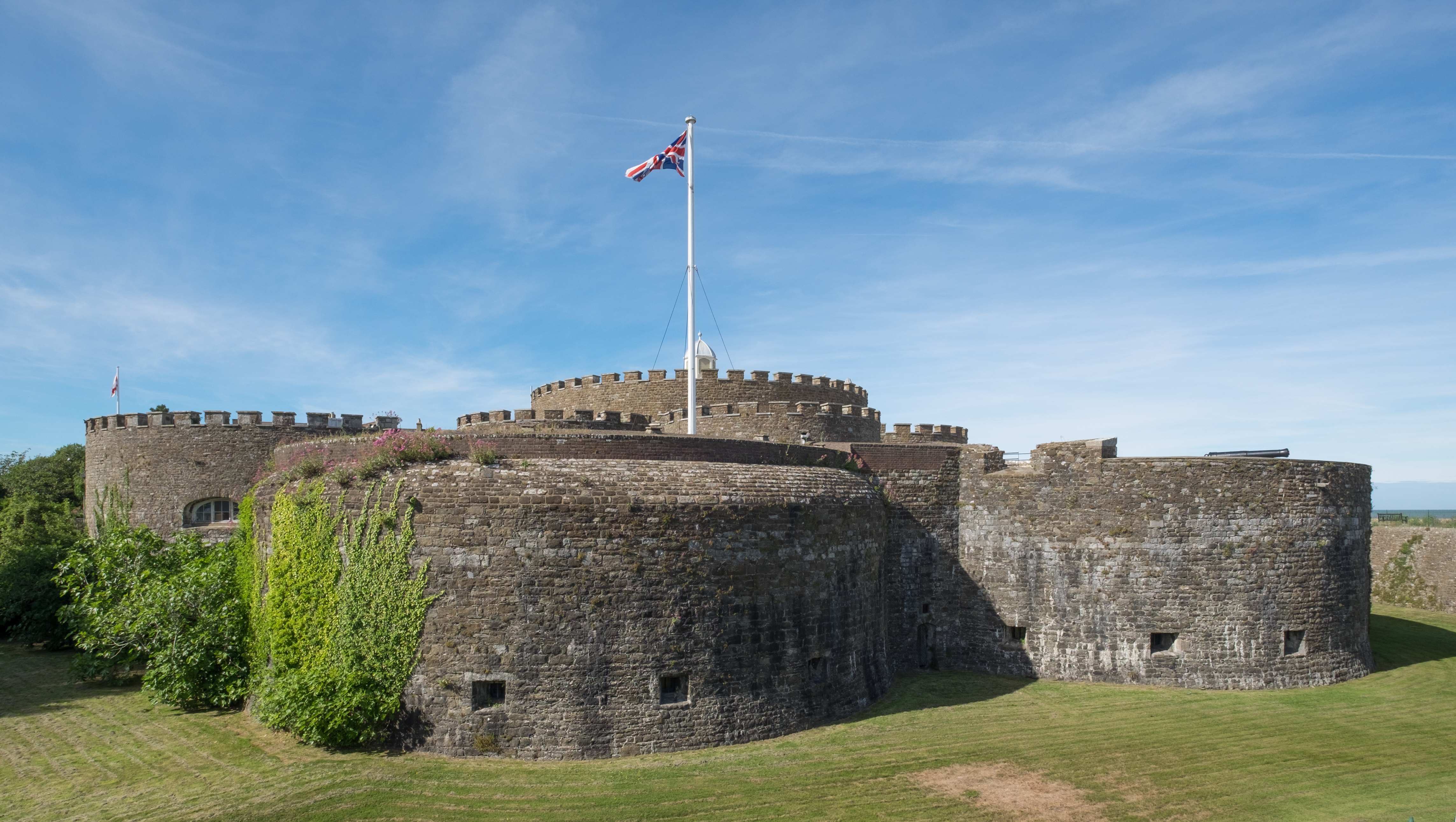 Deal Castle, Kent. This castle, built by Henry VIII between 1539 and 1540, is a listed building in England.